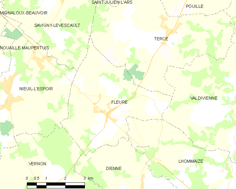 Map of French municipality Fleuré